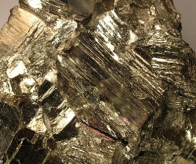 Bismuth, Bismuthinite Locality: Huallatani Mine, Potosí Department, Bolivia (Locality at ) Size: small cabinet, 7.9 x 6.2 x 4.1 cm Bismuth with Bismuthinite From the worlds richest deposit of bismuth, this extremely heavy specimen has mirror bright, metallic silver crystals of the element bismuth. Some are full crystals, I believe, parted along contact planes; although many are partial crystals or fragments, but the piece is extremely rich overall with crystals, to 2 cm in length. The lustre is blinding, like metal out of a fabricator. The weight is really shocking...bismuth is HEAVY stuff! This little rock masses over 800 grams, about 2 pounds! There is a hint of iridescence and the faintest hint of lavender.